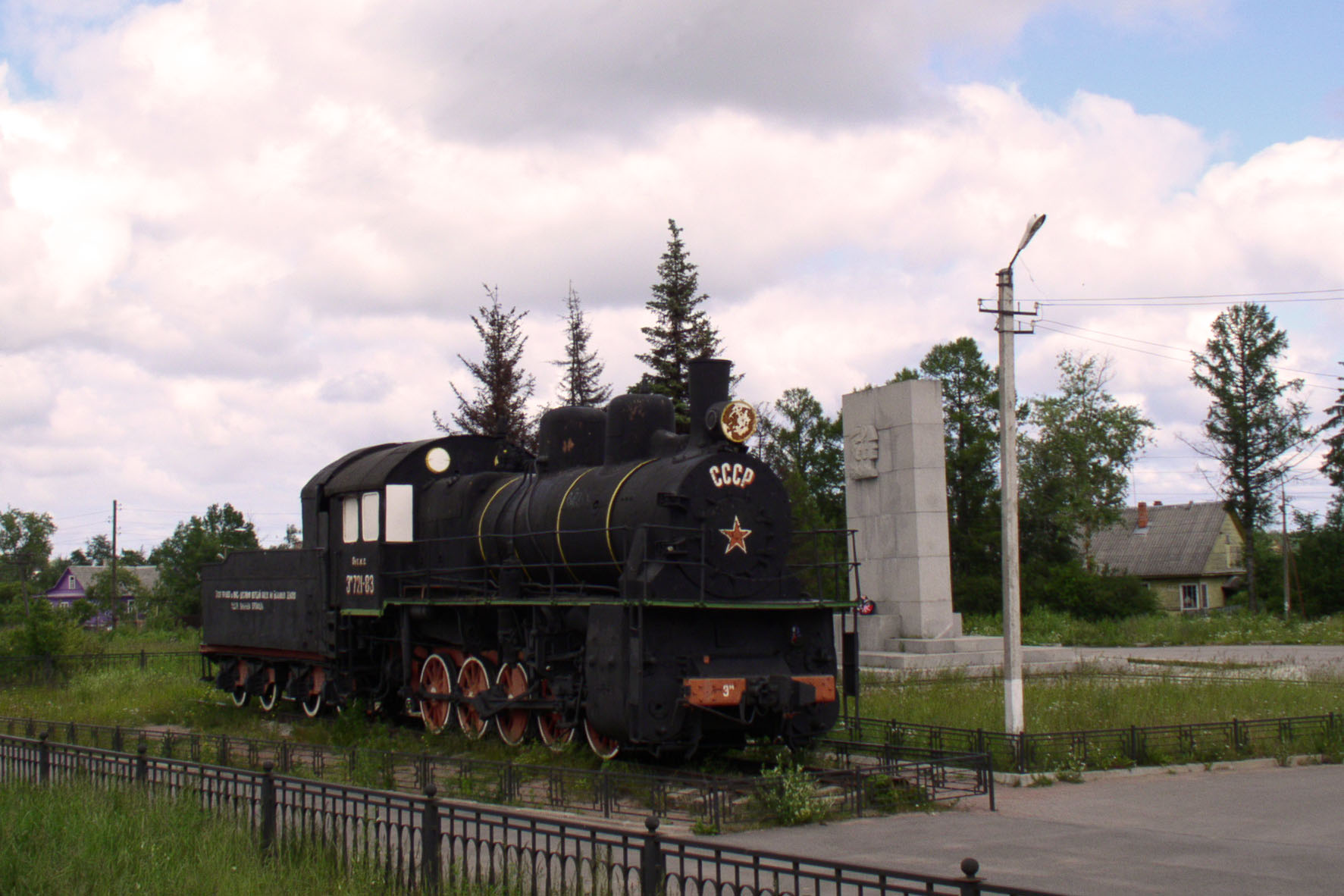 The steam locomotive EM-721-83 at Petrokrepost station in Leningrad Oblast established in memory about a railwaymans of «Road of Victory».